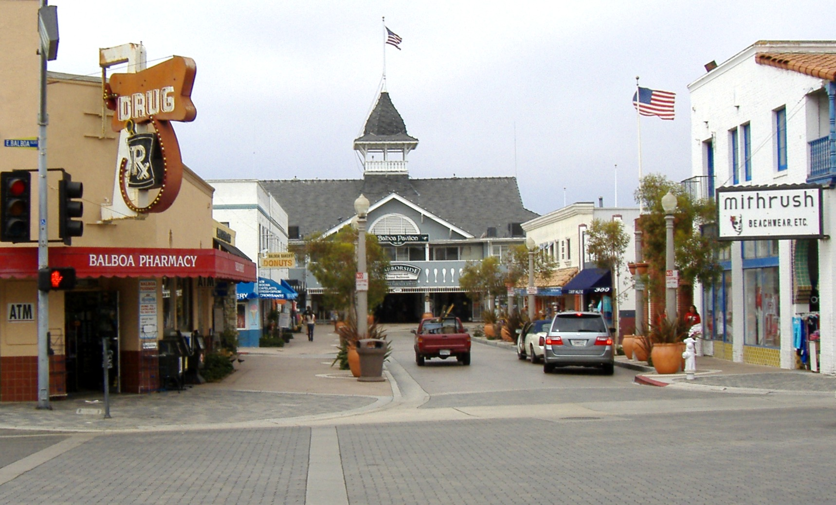 Balboa Pavilion on Main Street in Newport Beach, California